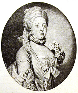 Caroline Mathilde of Denmark, painted by P. Als